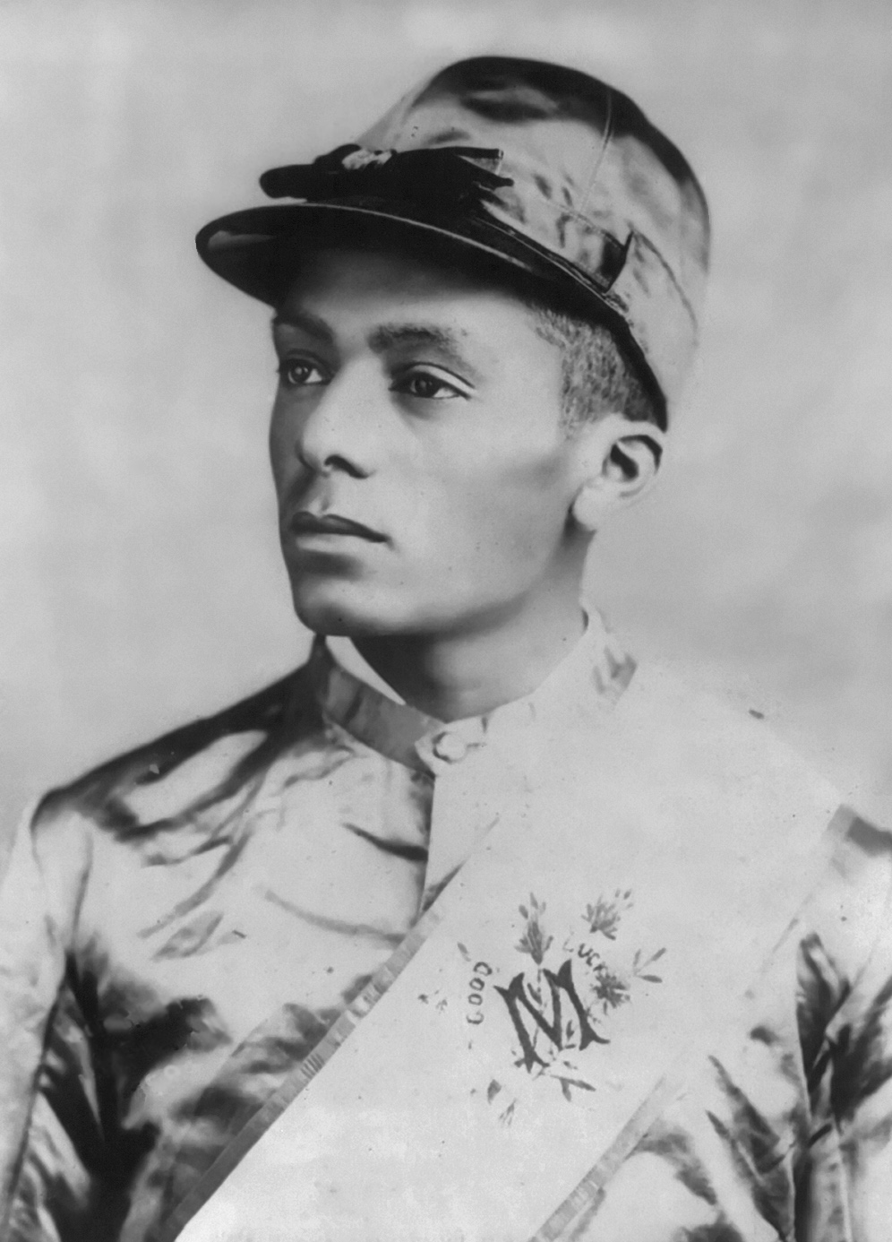 Isaac Murphy, jockey from the United States